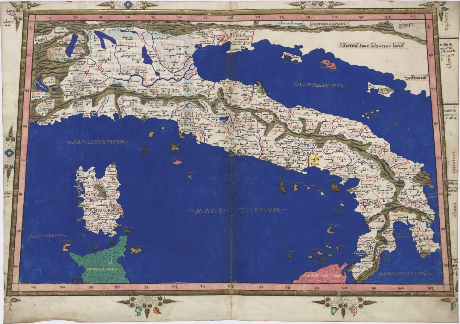 Ptolemy's 6th European Map: Italy.